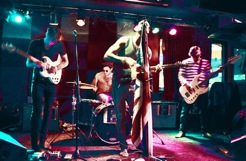 Pint Shot Riot performing live at the The Red Lion on Bleecker St. Greenwich Village, New York, USA on 26th March 2011